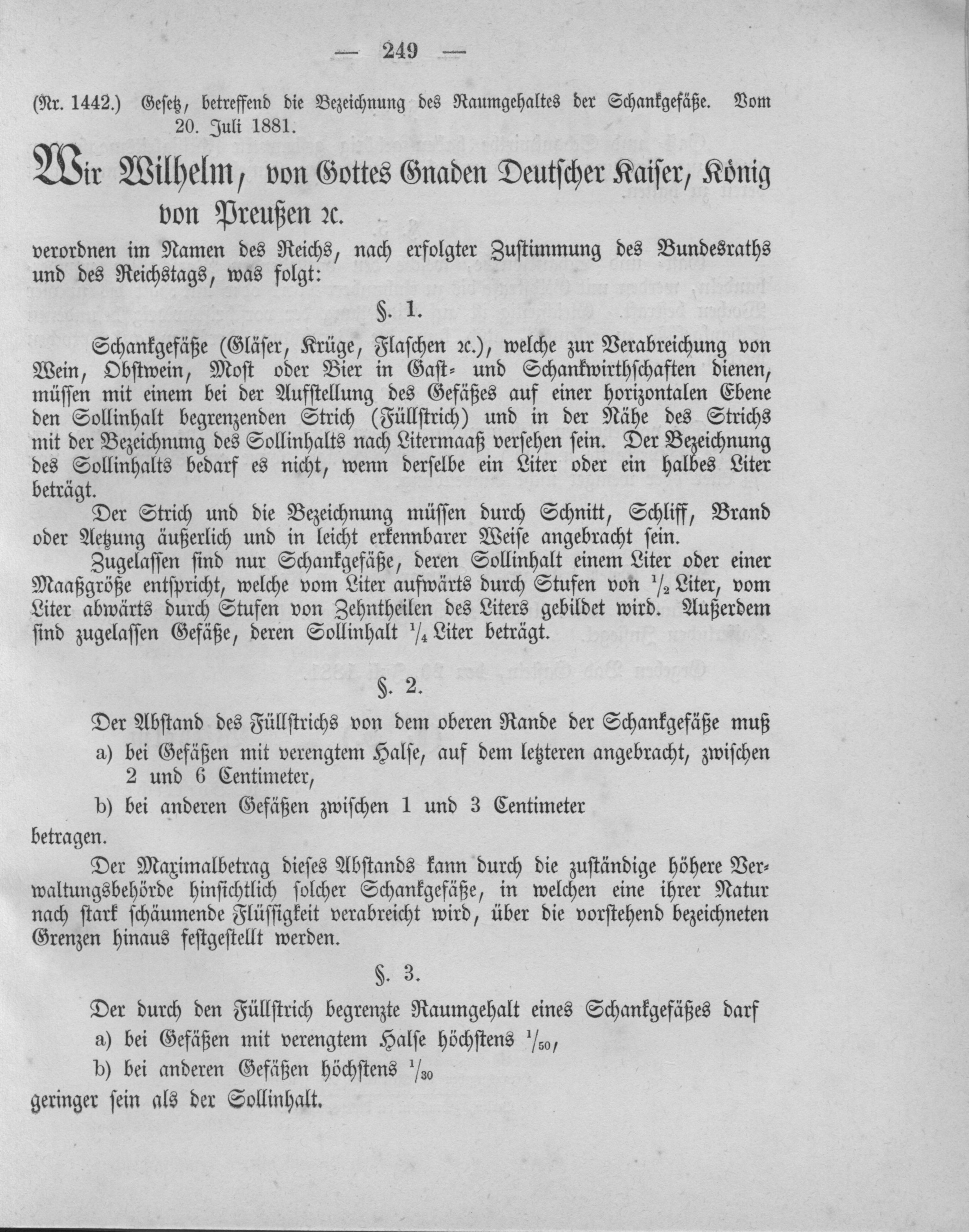 Scan from the Imperial Law Gazette of Germany, 1881